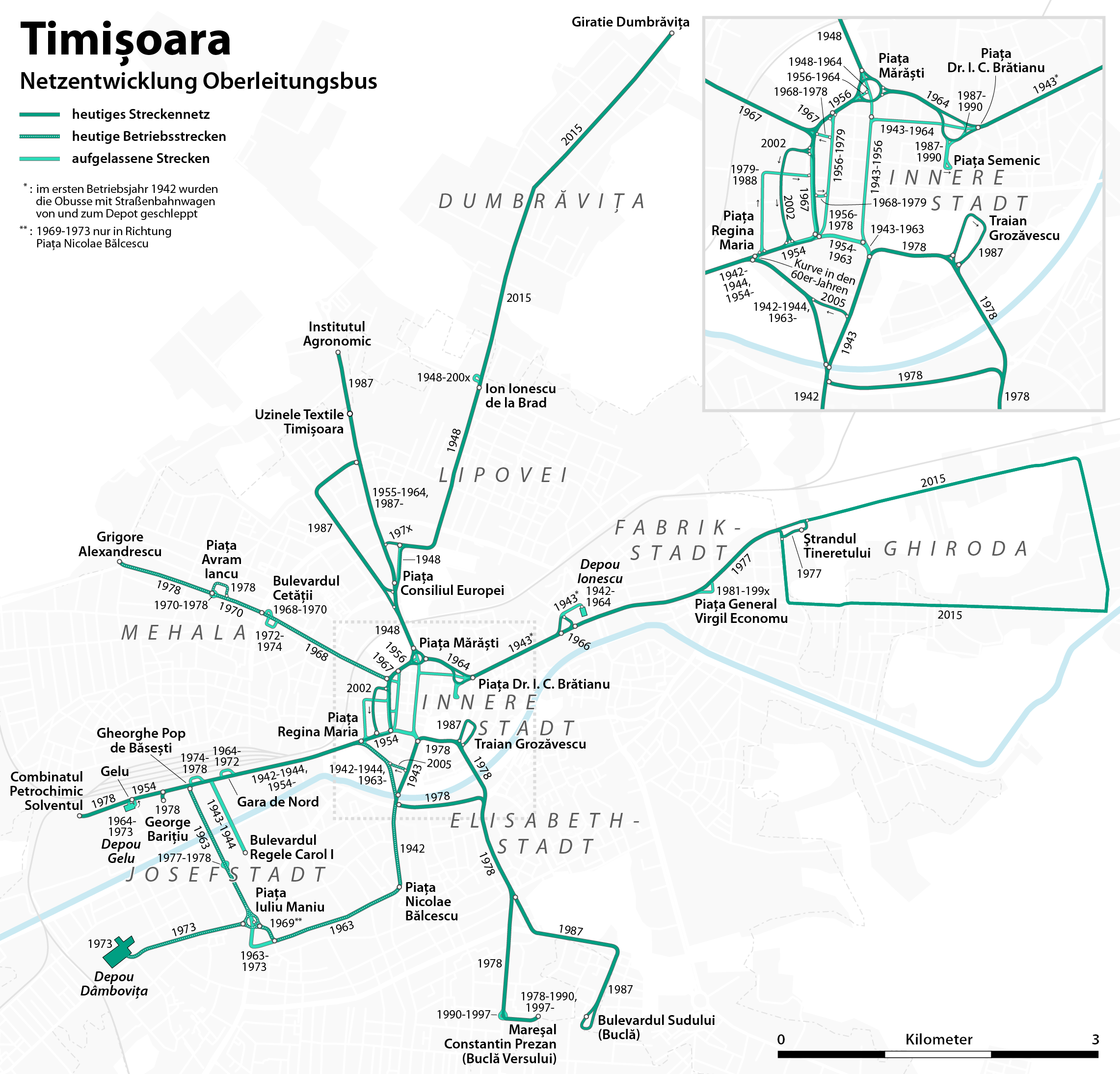 Map of network development of the Timișoara trolleybus